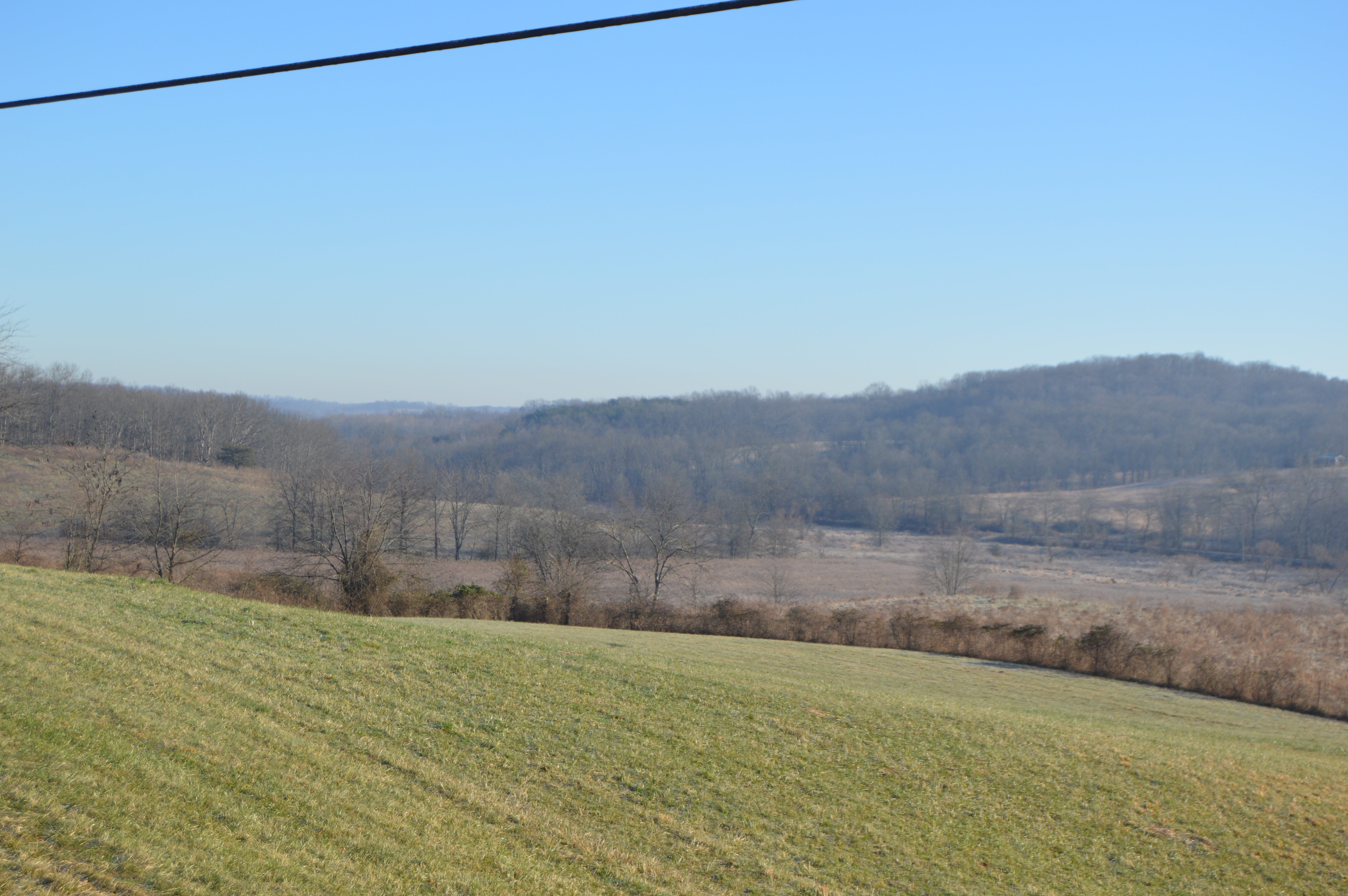 Fields along the eastern side of Beaver Pike in far southern Liberty Township, Jackson County, Ohio, United States.